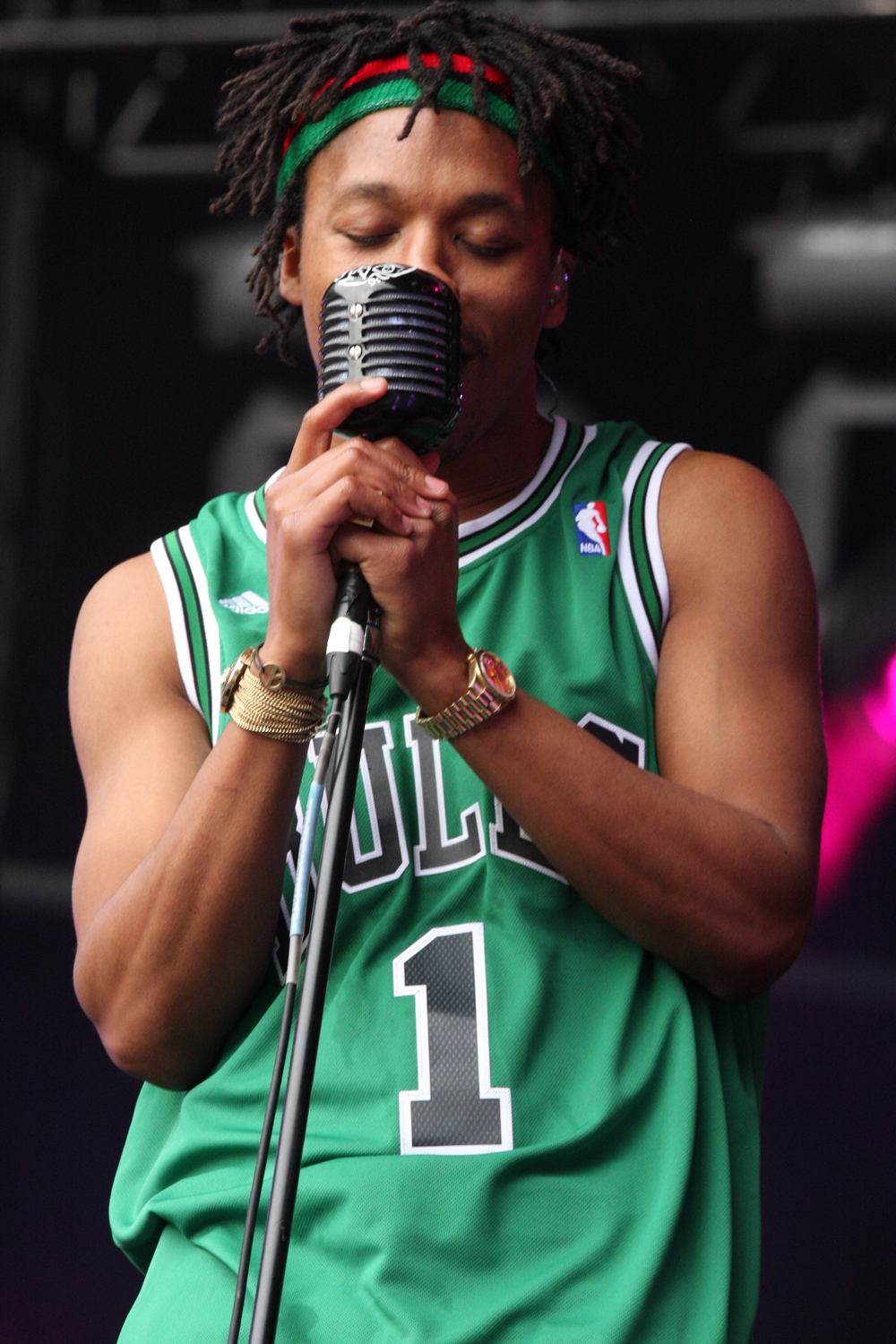 Lupe Fiasco Performs at Supafest 3 Sydney, Australia 2012.